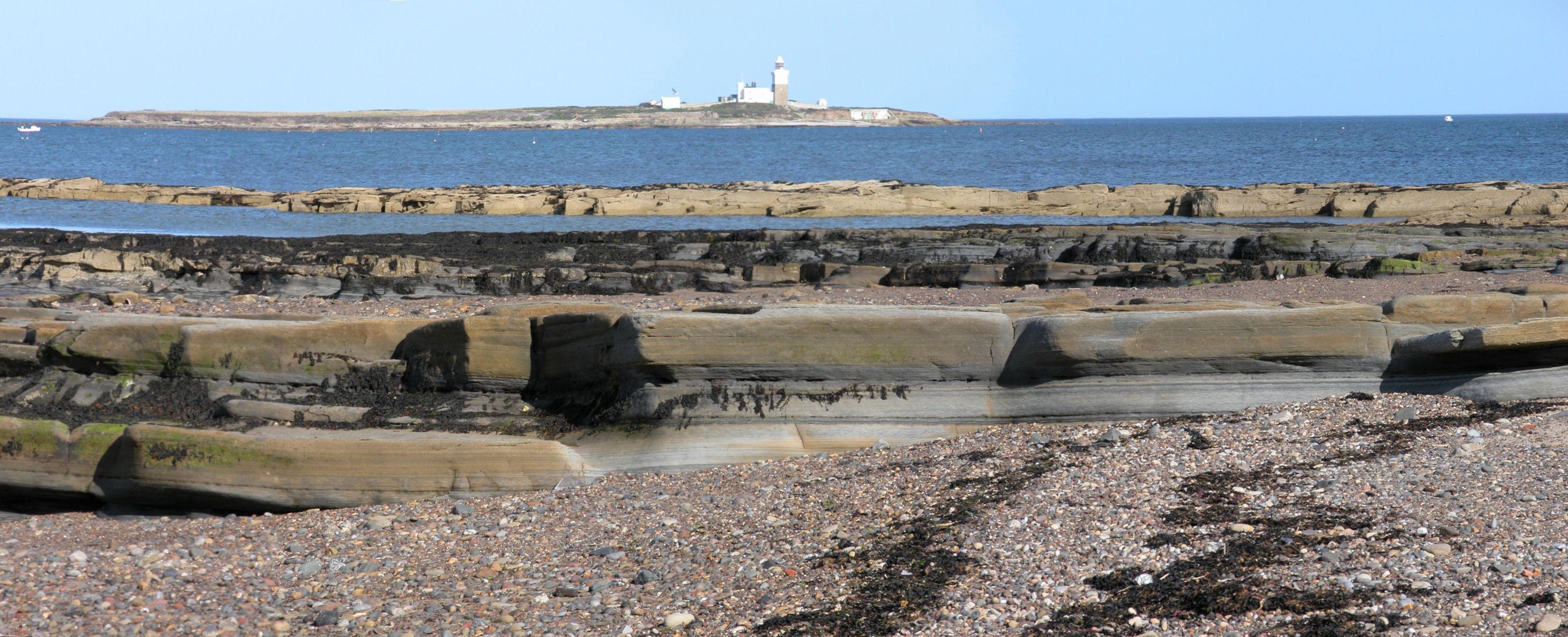 Author: Ivor Rackham (c)2005